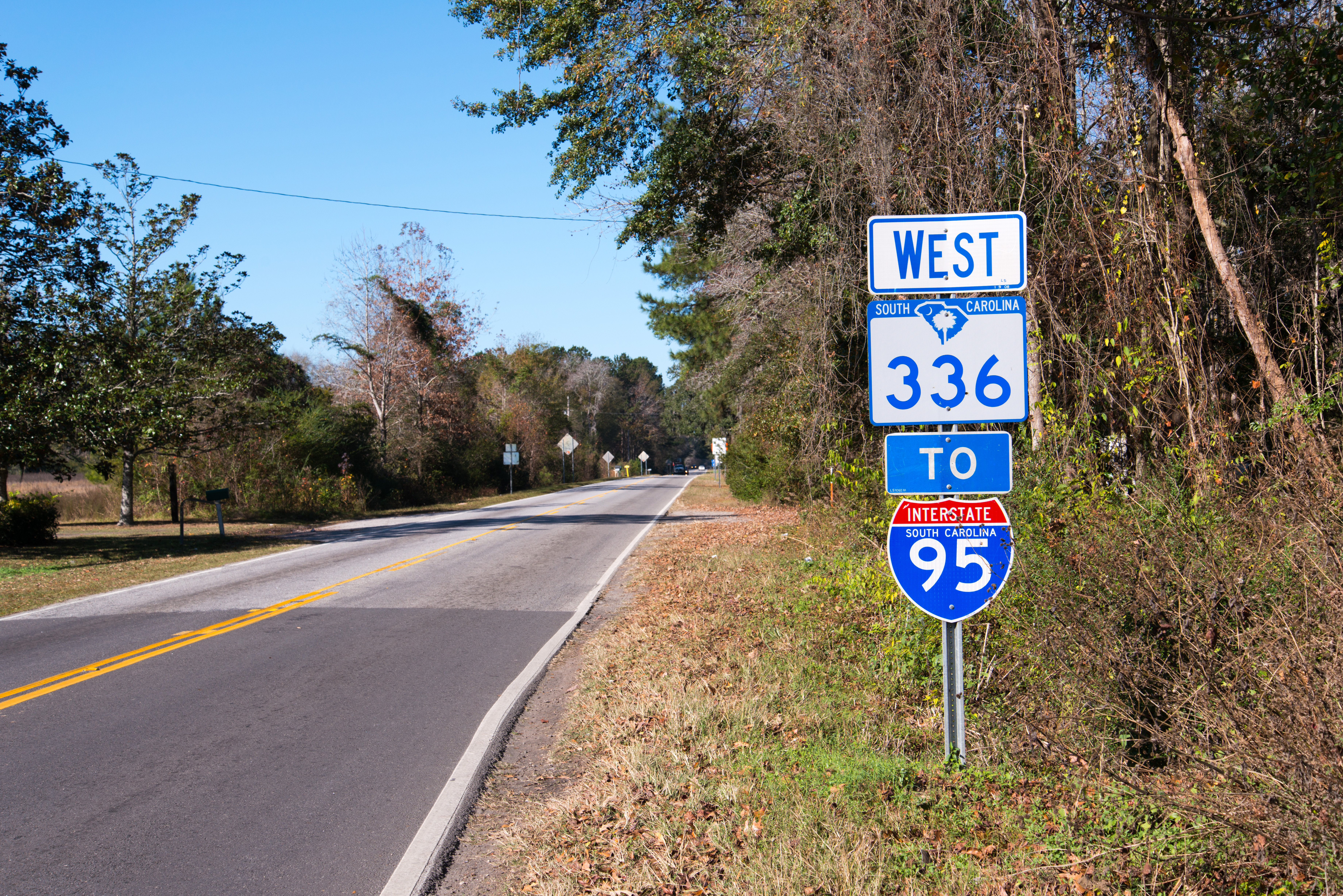 South Carolina Highway 336 West sign along Old House Road, located in Old House, South Carolina.